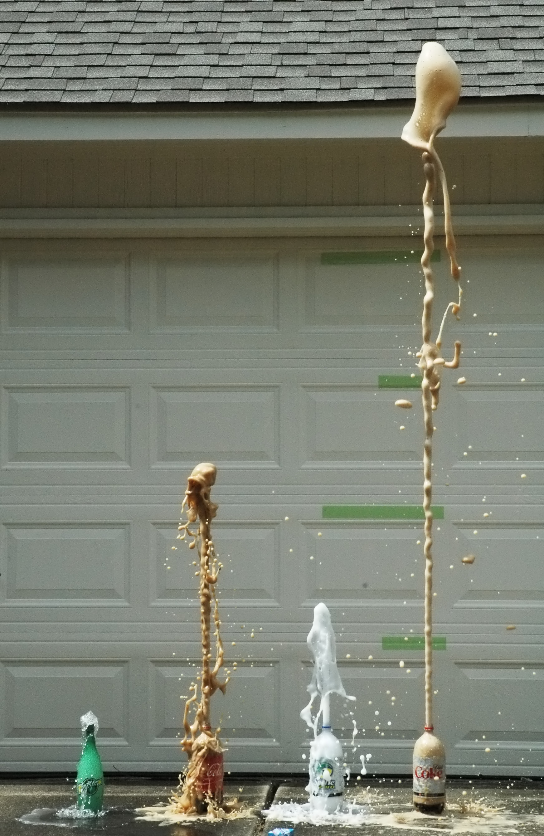 Mentos Geyser with five drops of plain Mentos. From left: carbonated water (Perrier), Classic Coke, Sprite and Diet Coke. The green marks are with 0.5 m separation.